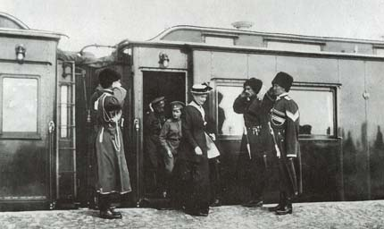 Alexandra Fyodorovna, tsarevitch Alexey and Nicholas II arrived to Stavka